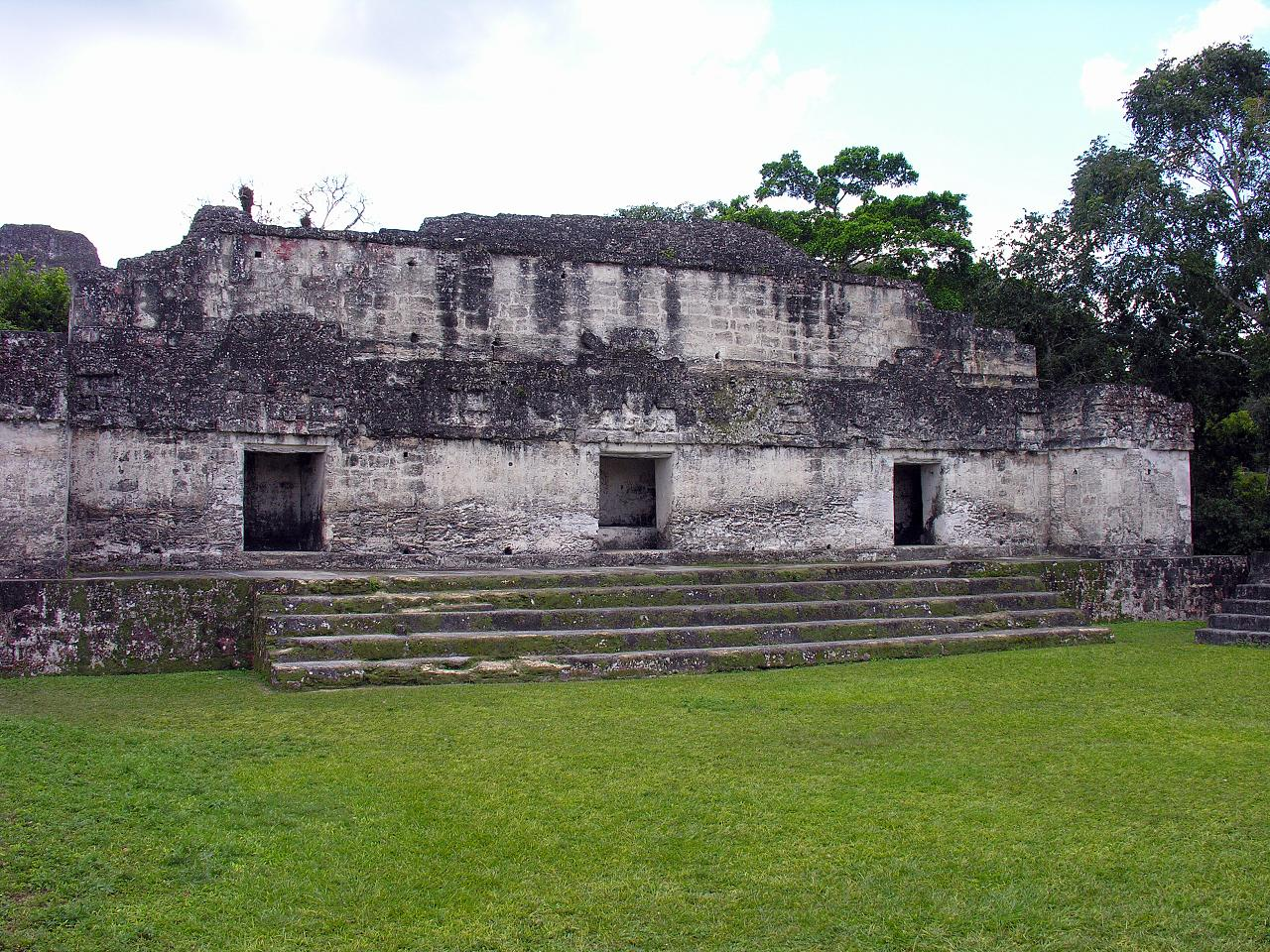 Maler's Palace, or structure 5D-65, get its name from Teoberto Maler, an early explorer who lived in this structure during two expeditionsin 1895 and 1904. Tikal, Guatemala